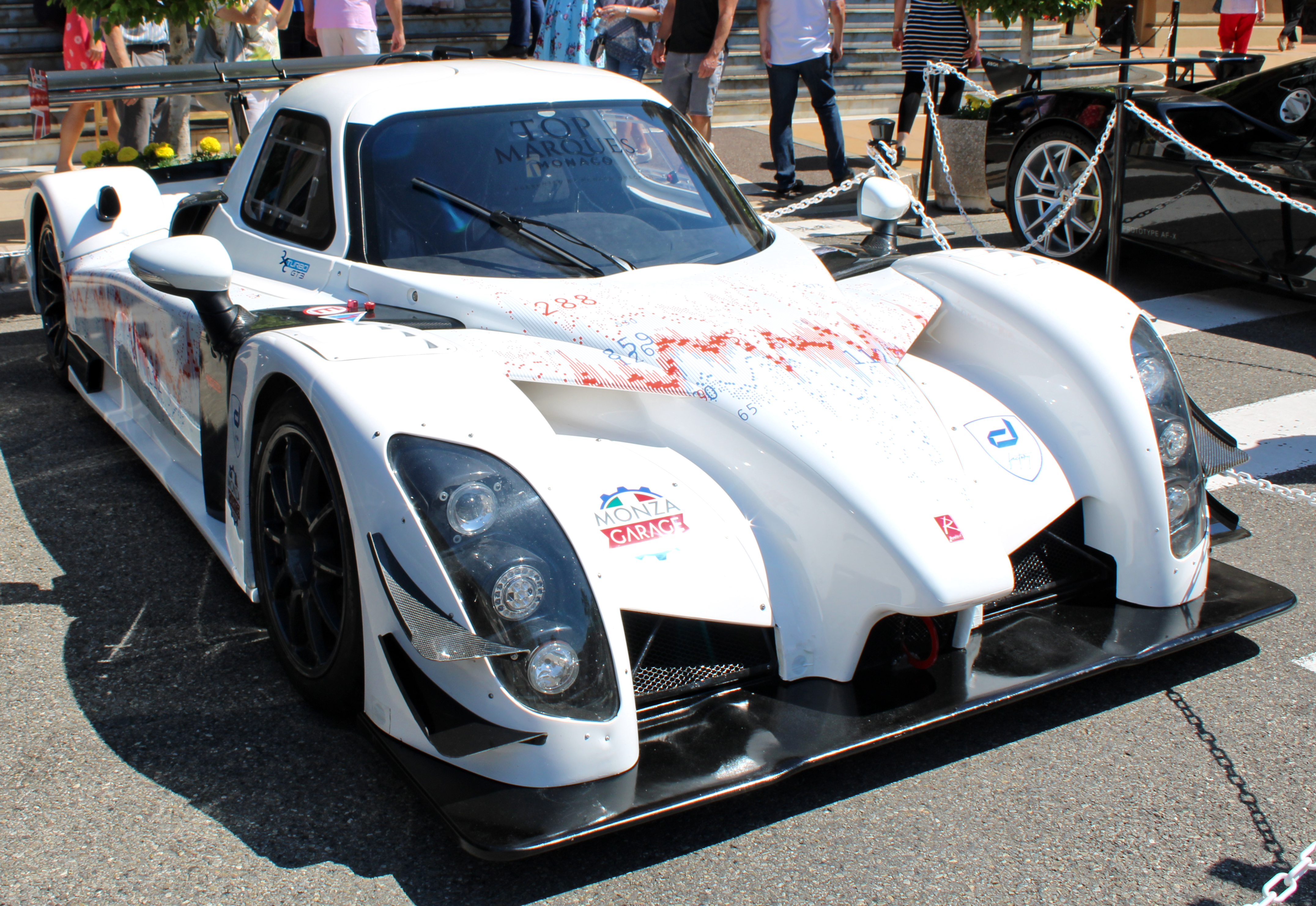 Radical RXC Turbo GT3 in Monaco